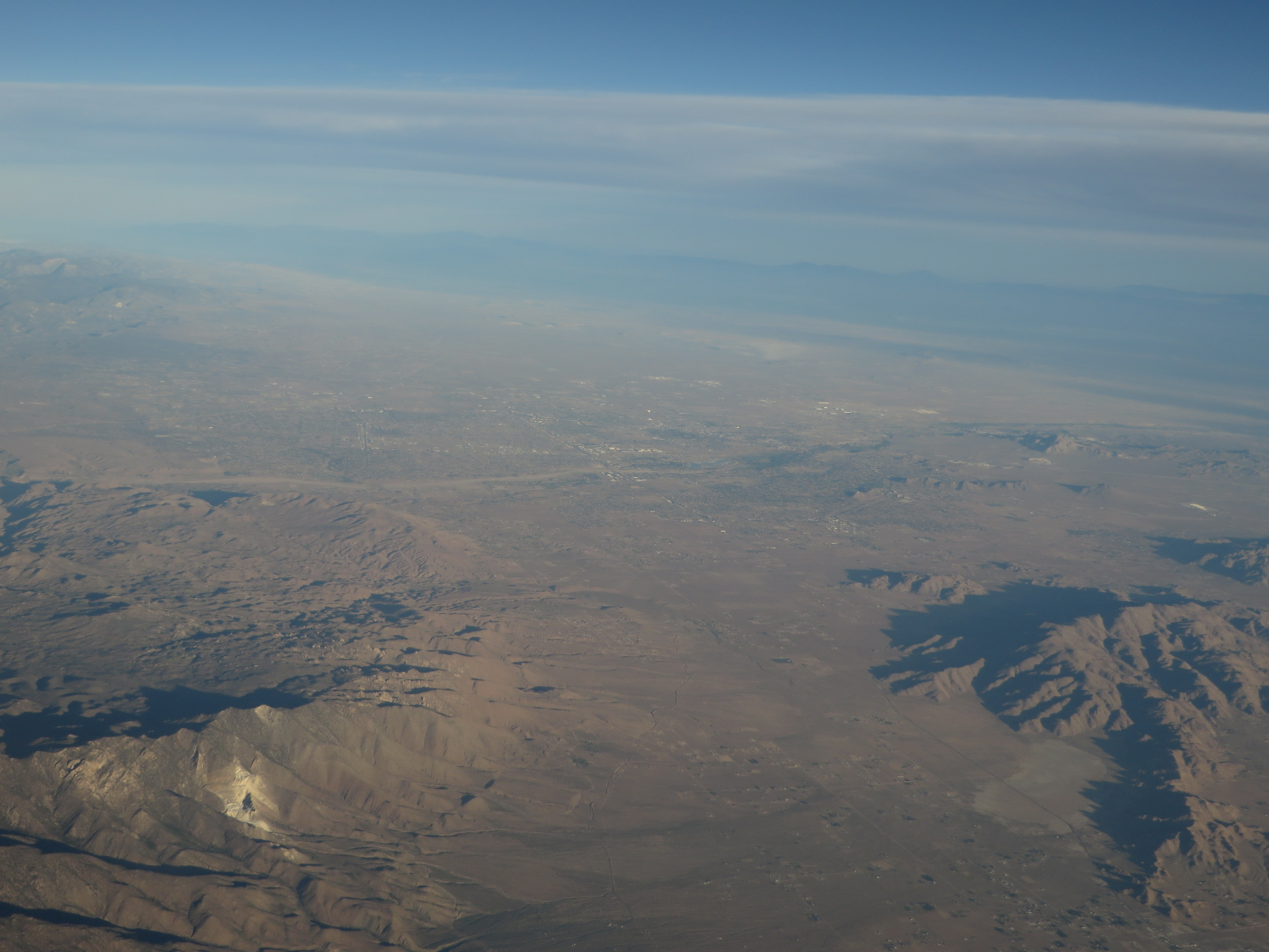 Victor Valley is a subregion of Southern California, north of the San Bernardino Mountains in the Mojave Desert. It is located in San Bernardino County and situated east of the Antelope Valley and north of the Cucamonga Valley. The Victor Valley is part of the Inland Empire subregion of the Greater Los Angeles Area. Out of 4 incorporated cities, the largest one is Victorville. The Victor Valley contains only 4 incorporated towns and cities, but has 15 unincorporated communities. Adding the population of them all, the Victor Valley is about the same size as the city of Oakland. The Victor Valley has an estimated population of 390,000. The densest human population is in a 10-mile radius from Victorville in a rural desert region.